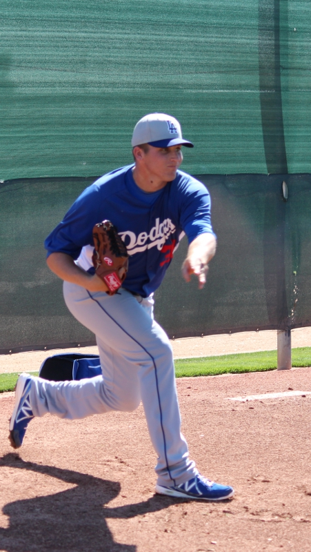 Jarret Martin with the Dodgers in spring training in 2013